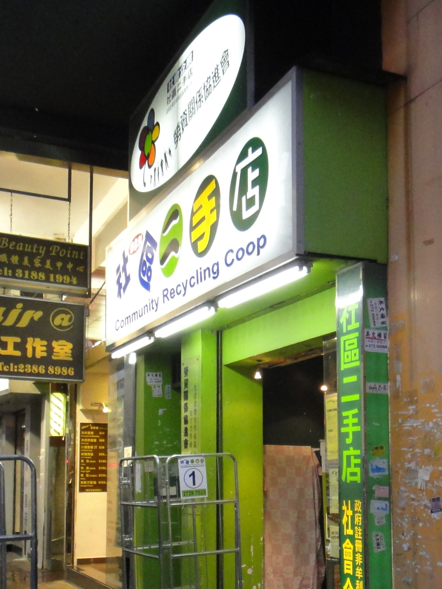 Recycling Shops